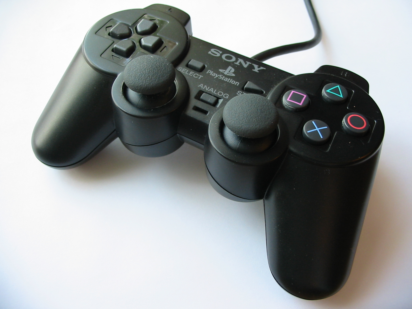 Sony DualShock 2 controller